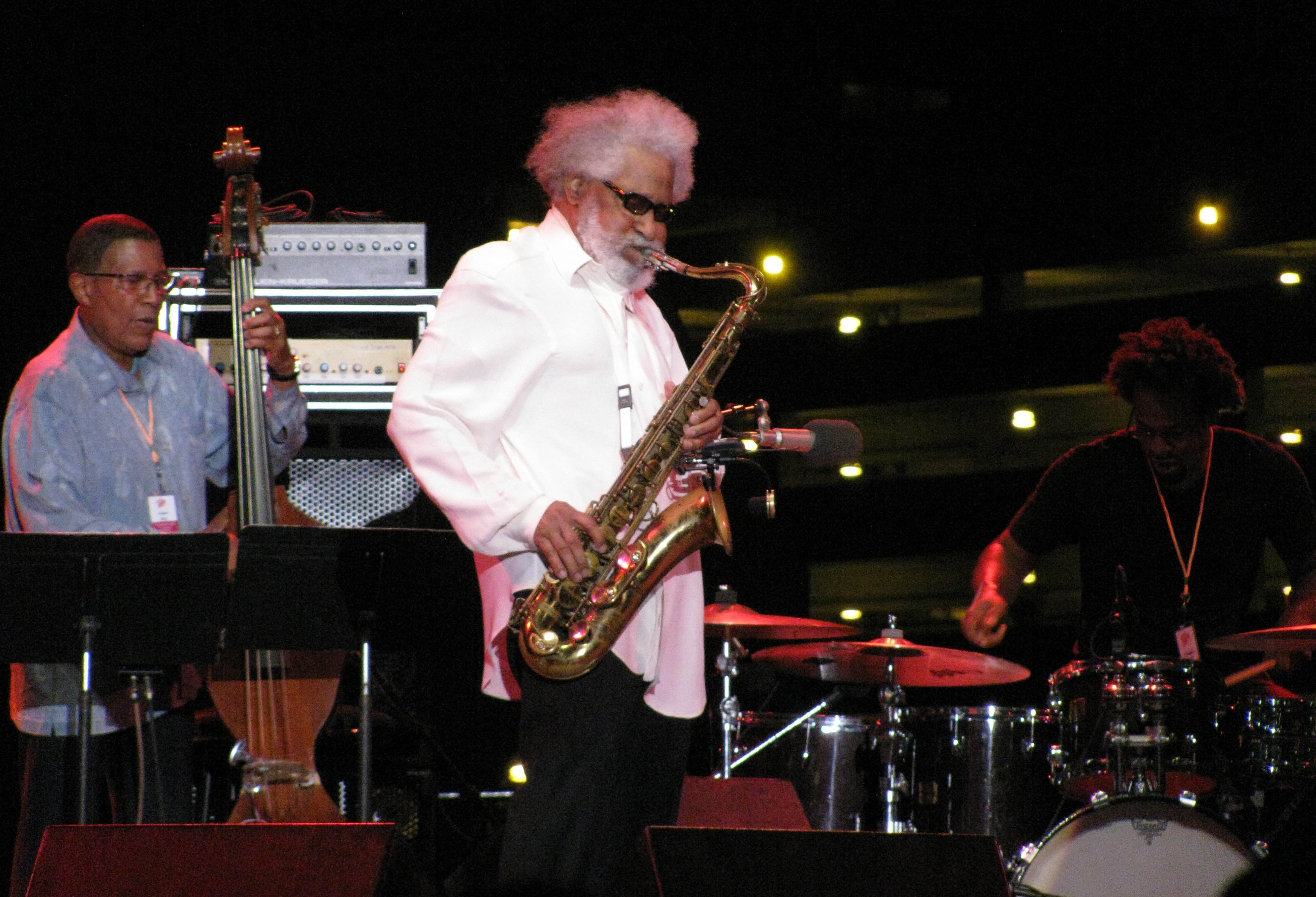 Sonny Rollins at Detroit Jazz Festival (August 31, 2012)